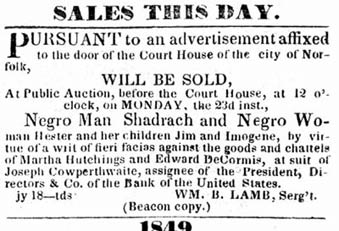 Shadrach Minkins for sale in newspaper notice